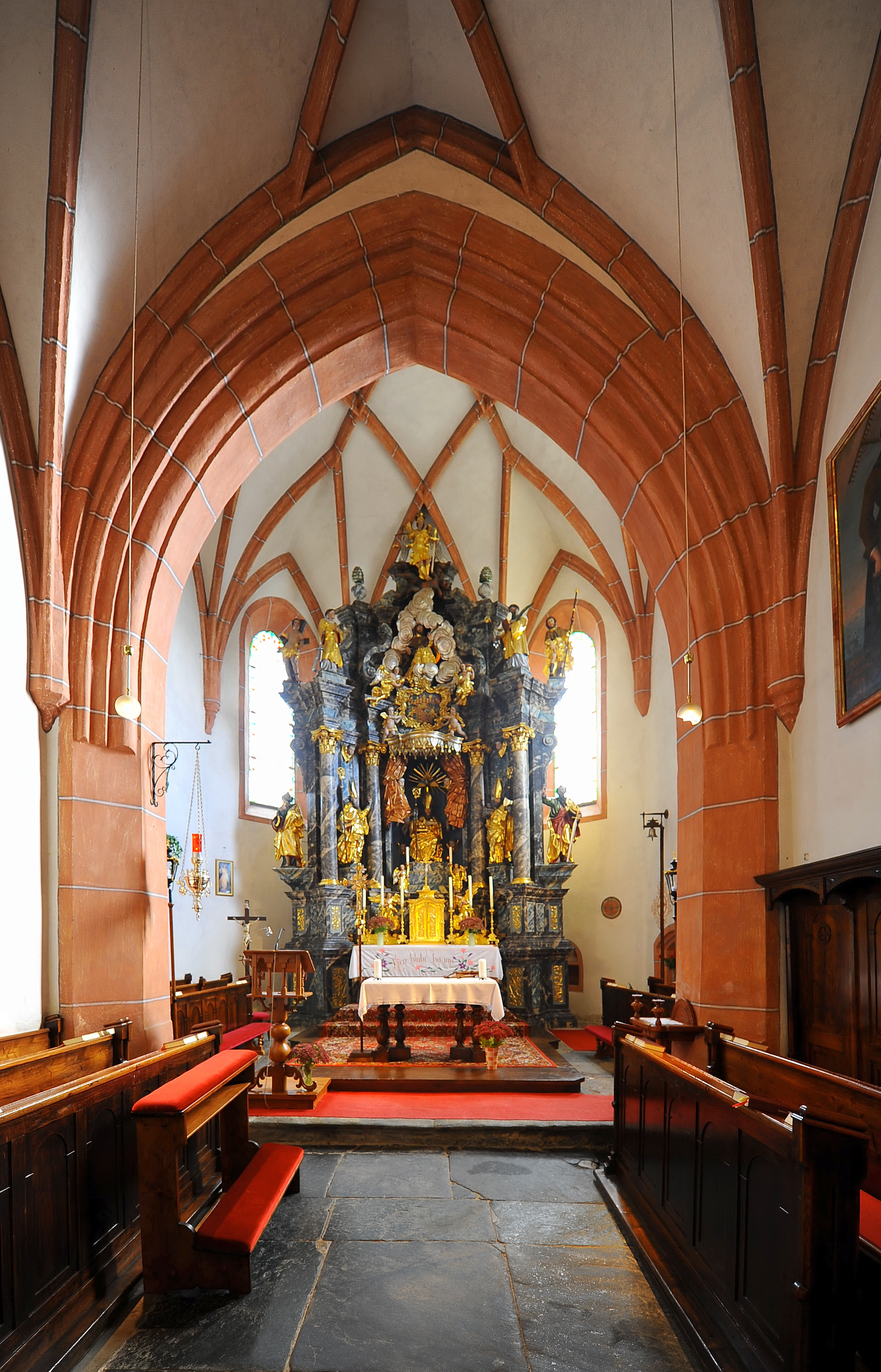 View at the square of the choir and the sanctuary inside the parish church Saint Nicholas in Preitenegg, municipality Preitenegg, district Wolfsberg, Carinthia, Austria, EU